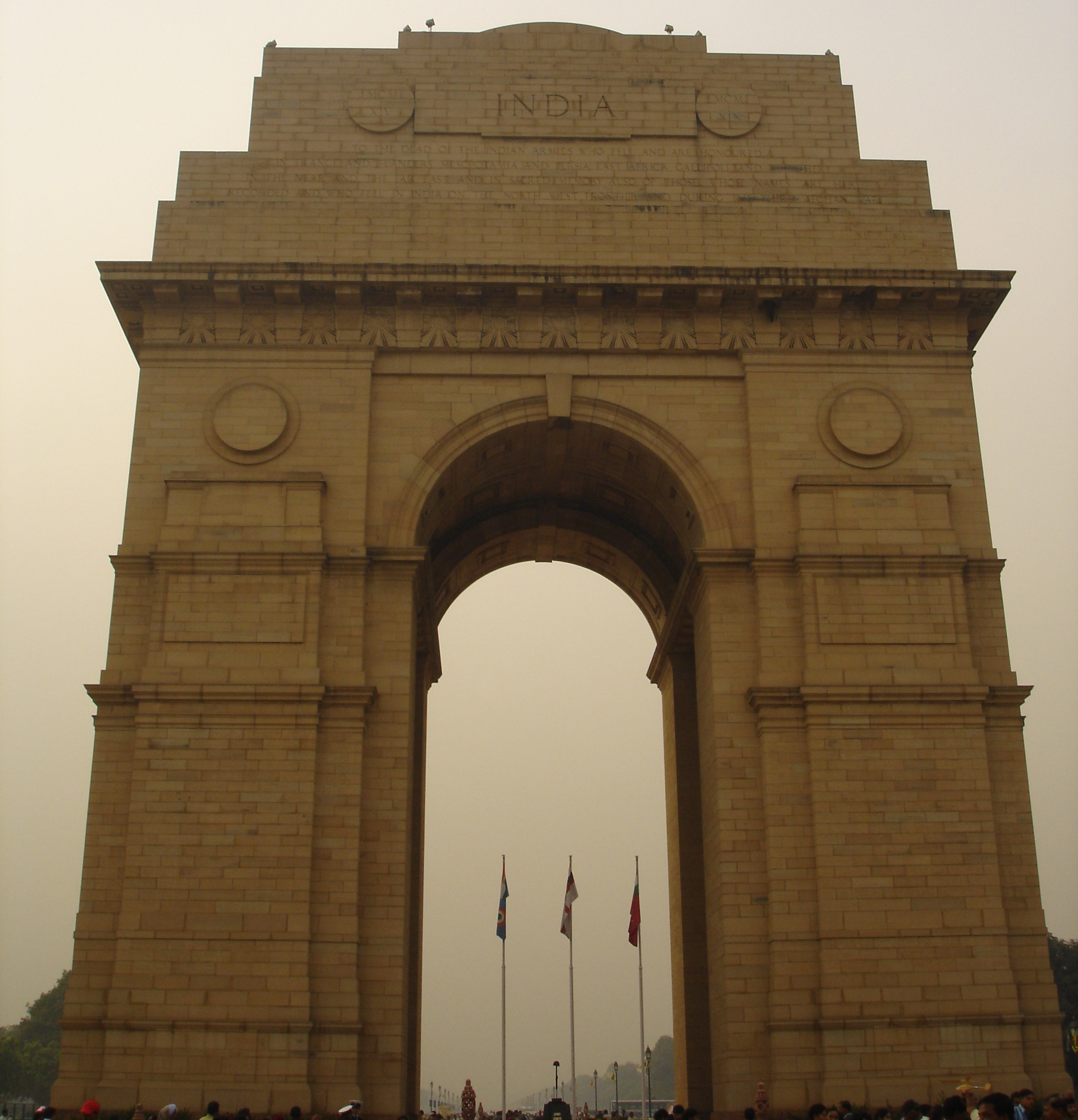 The India Gate